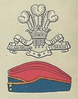 Badge and service cap as worn at the outbreak of World War II